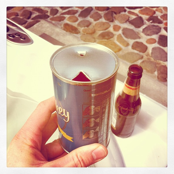 A beer by the Churchkey Can Co. from Seattle Washington. (Photo taken with Instagram).